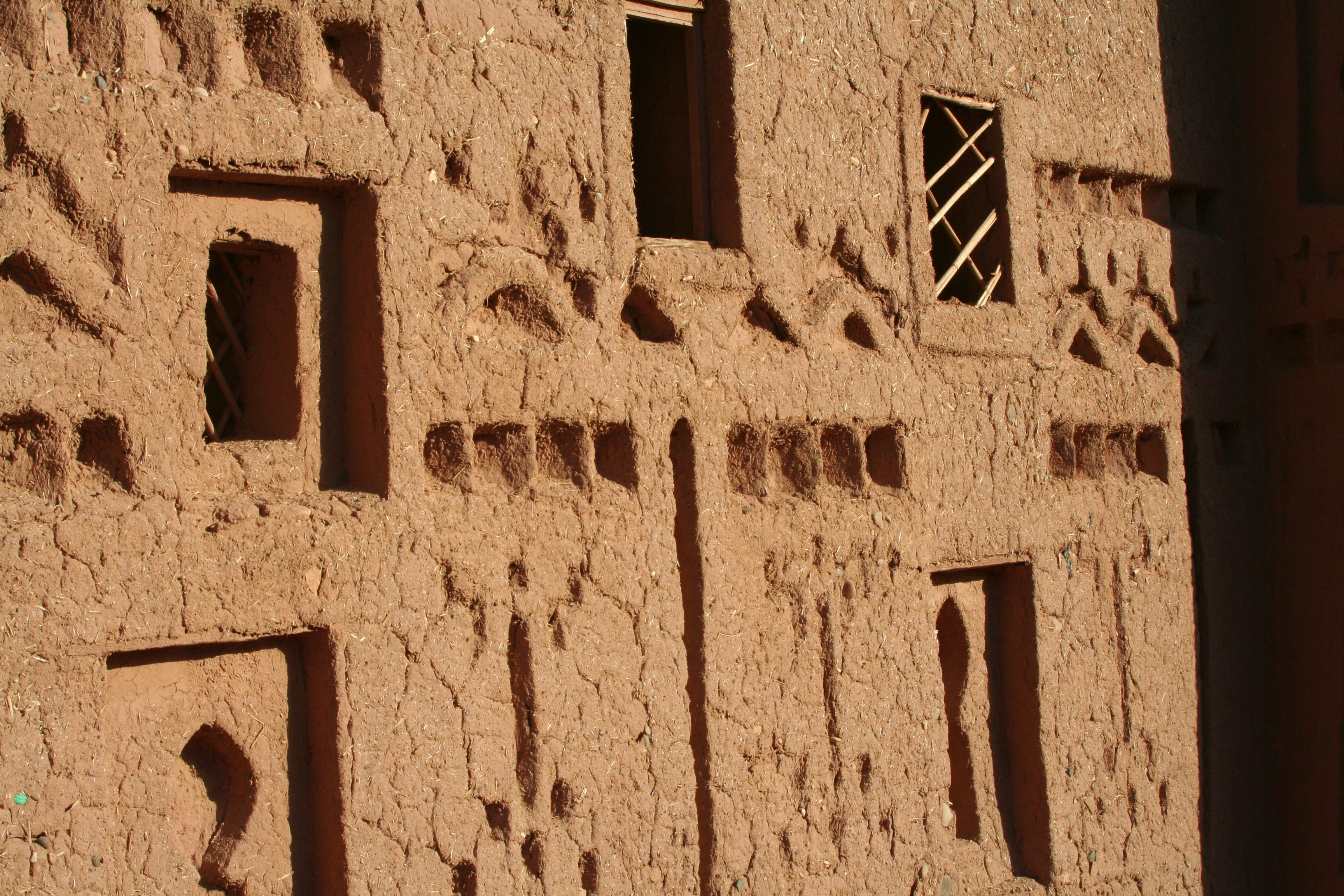 Detail of external decoration on buildings of Aït Benhaddou.